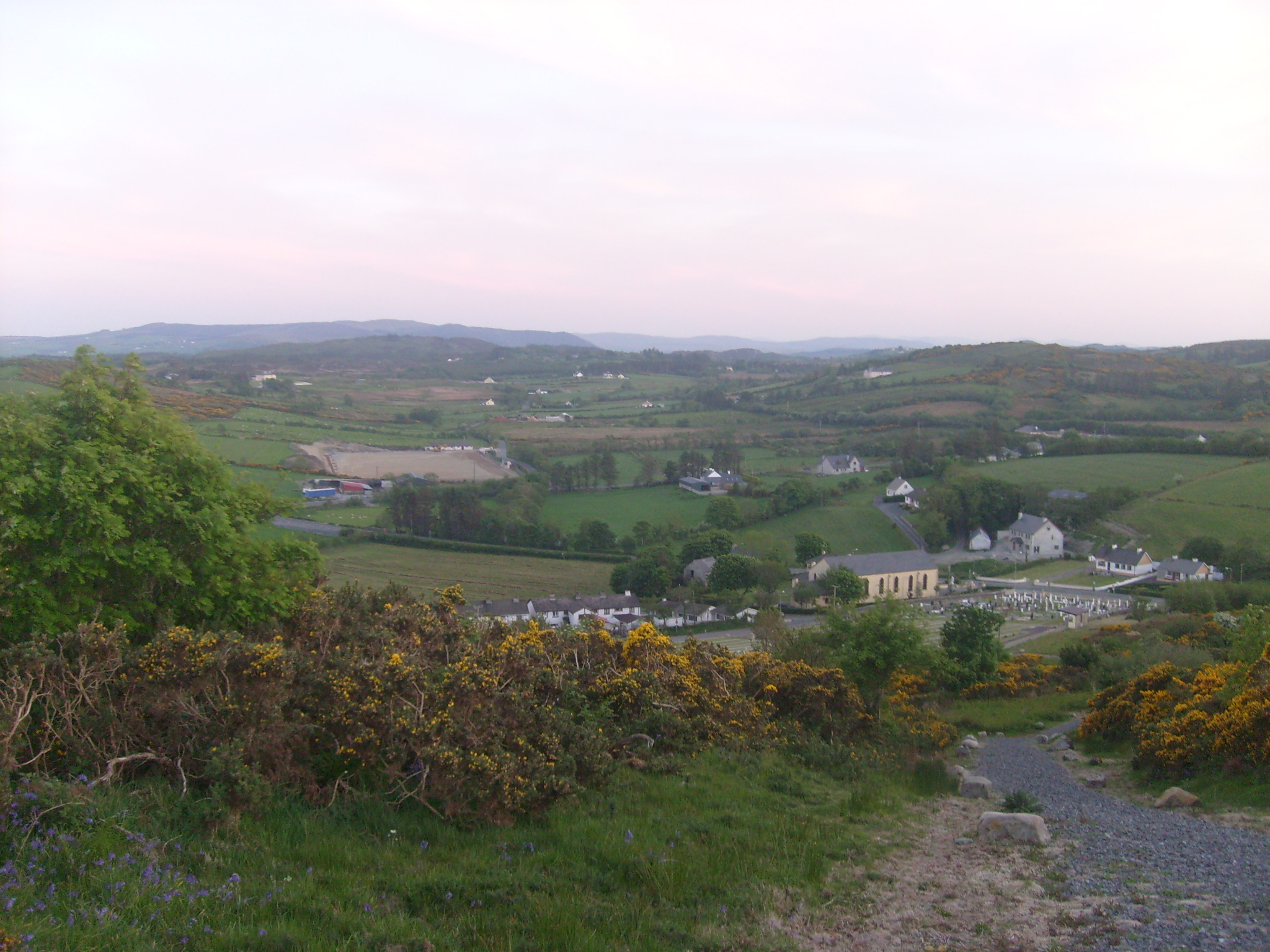 An Tearmann (Termon), County Donegal, Ireland